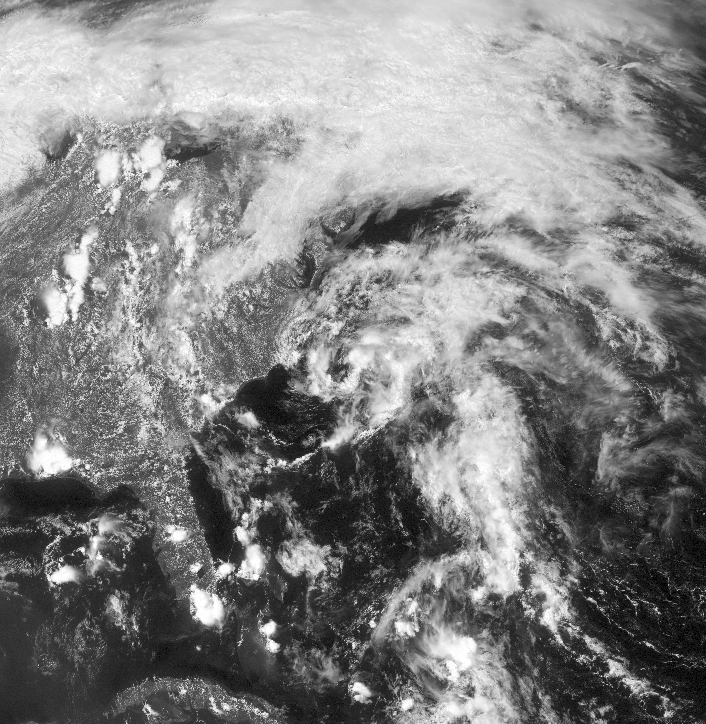 The Precursor to Tropical Depression One on May 27, 2009